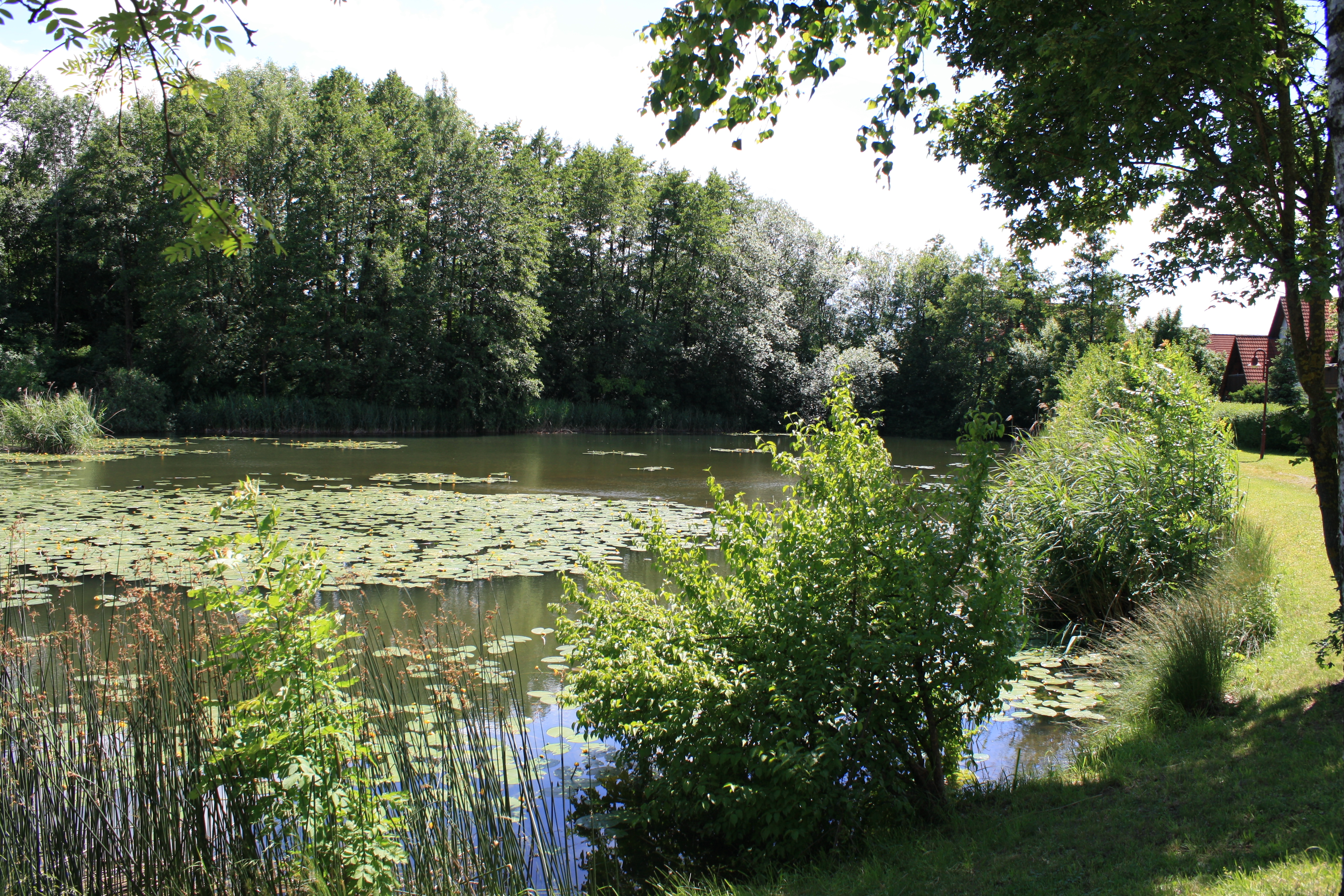 The village pond by Schlier